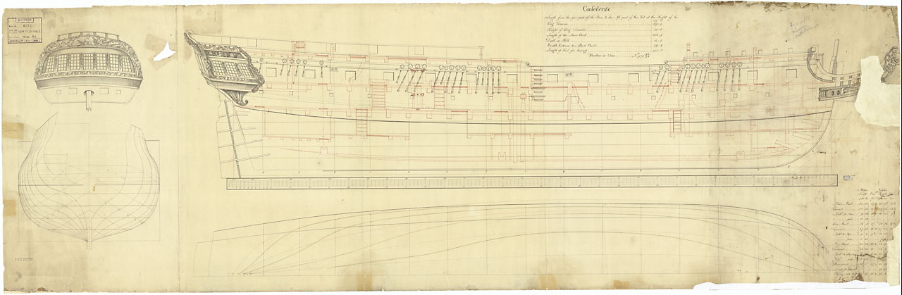 Confederate (captured 1781) Scale: 1:48. Plan showing the body plan, stern board with decoration detail, sheer lines with inboard detail and figurehead, and longitudinal half-breadth for Confederate (captured 1781), a captured American Fifth Rate. The plan illustrates the ship as she was taken off at Woolwich Dockyard. She was never commissioned into the Royal Navy. The plan includes a table of mast and yard dimensions. NMM, Progress Book, volume 5, folio 526 states that 'Confederate' (1781) arrived at Woolowich Dockyard in 1781 and was docked 18 November 1781. She was broken up in 1782. CONFEDERATE 1779 [AMERICAN]